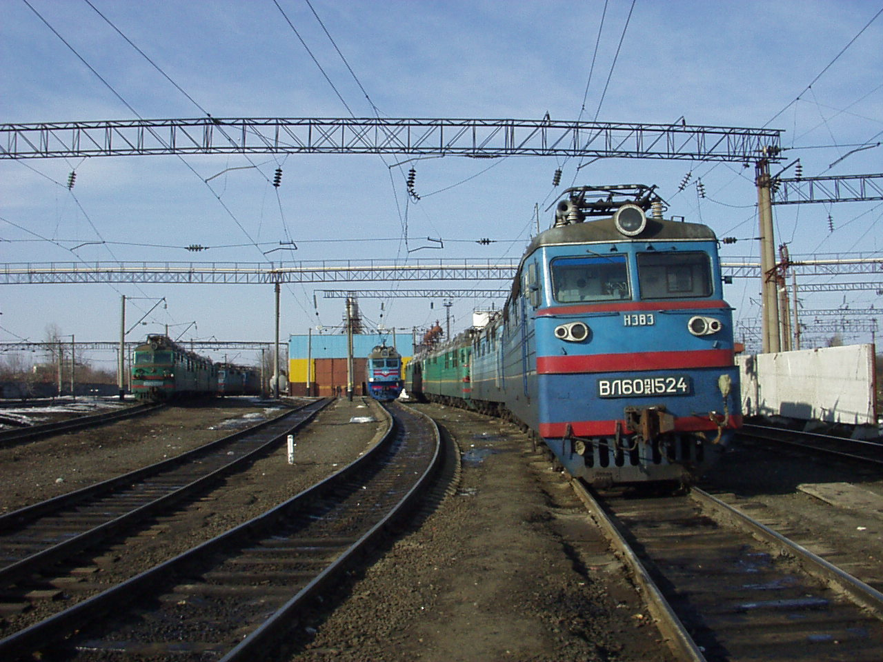 Electric locomotive VL60pk-1524, Kotovsk locomotive depot